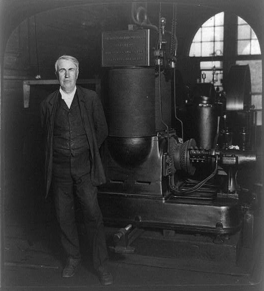 Thomas Edison and his original dynamo, Edison Works, Orange, N.J., U.S.A.